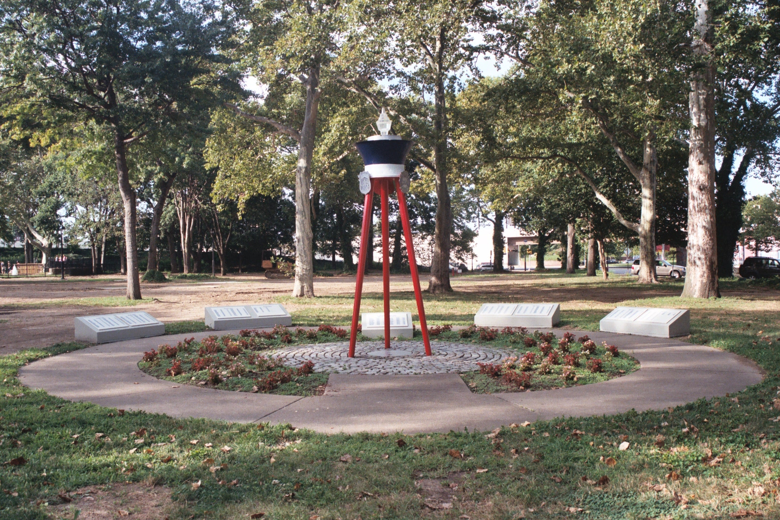 Philadelphia Fire Department Memorial in Franklin Square at 6th Street and Race, Philadelphia, Pennsylvania